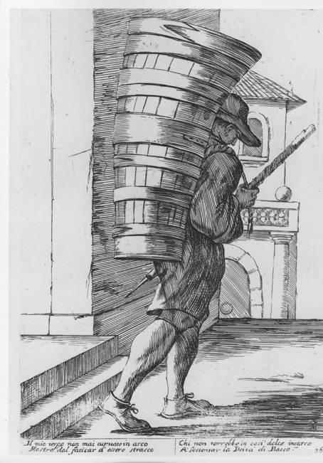 Brentator: artist Annibale Carracci, engraver Giuseppe Maria Mitelli, 1660